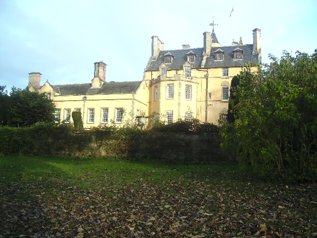 Innes House